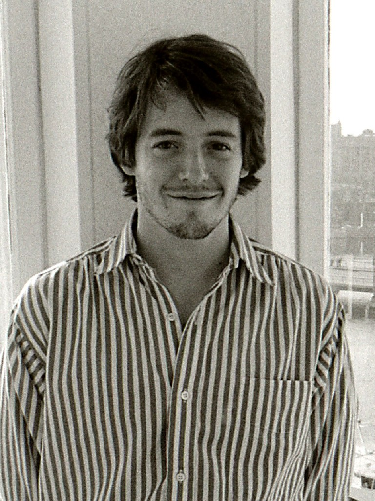 Matthew Broderick in Sweden to promote Ferris Bueller's Day Off